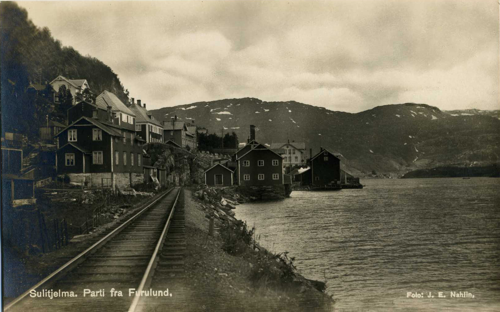 Here is what this area looks like today